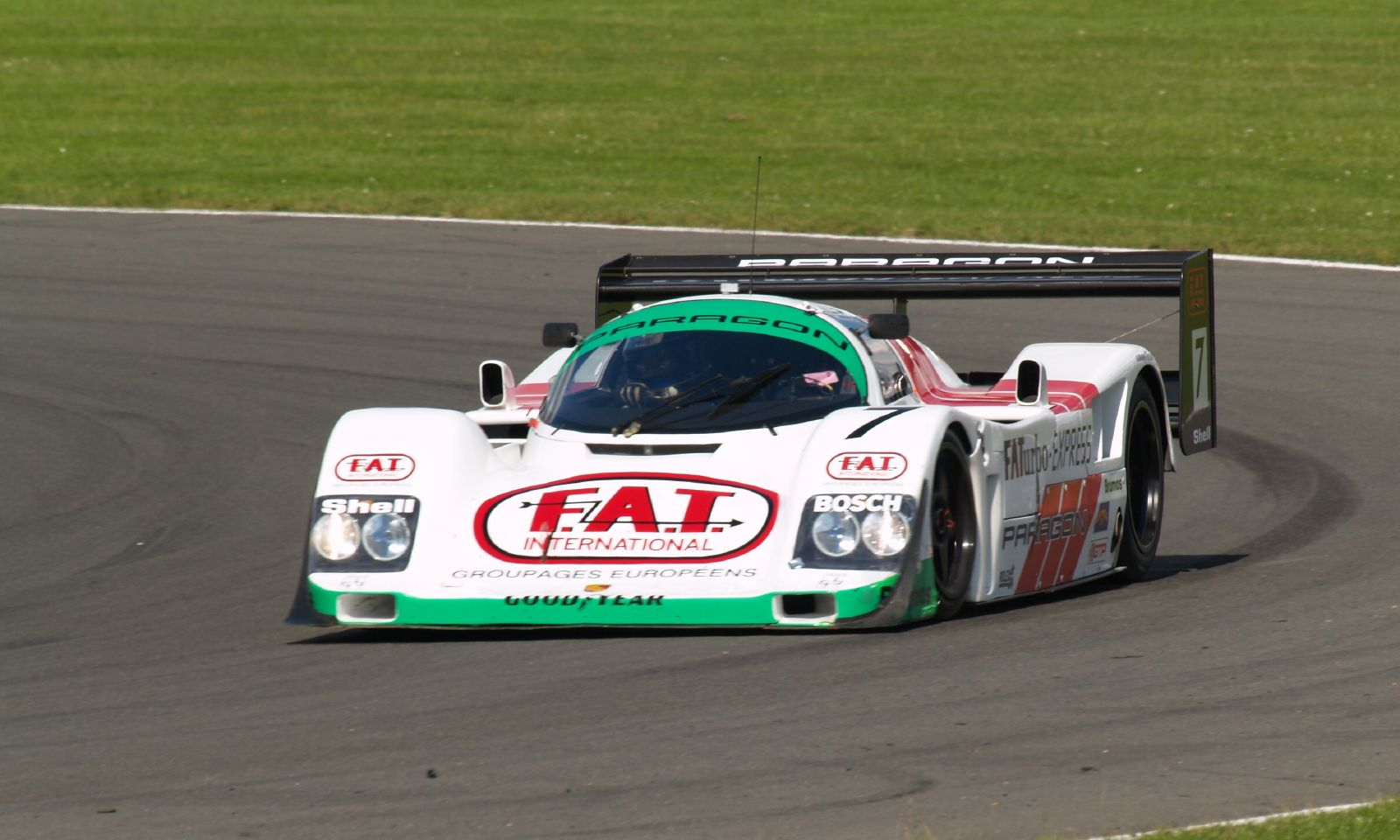 A Porsche 962C at the Silverstone Classic